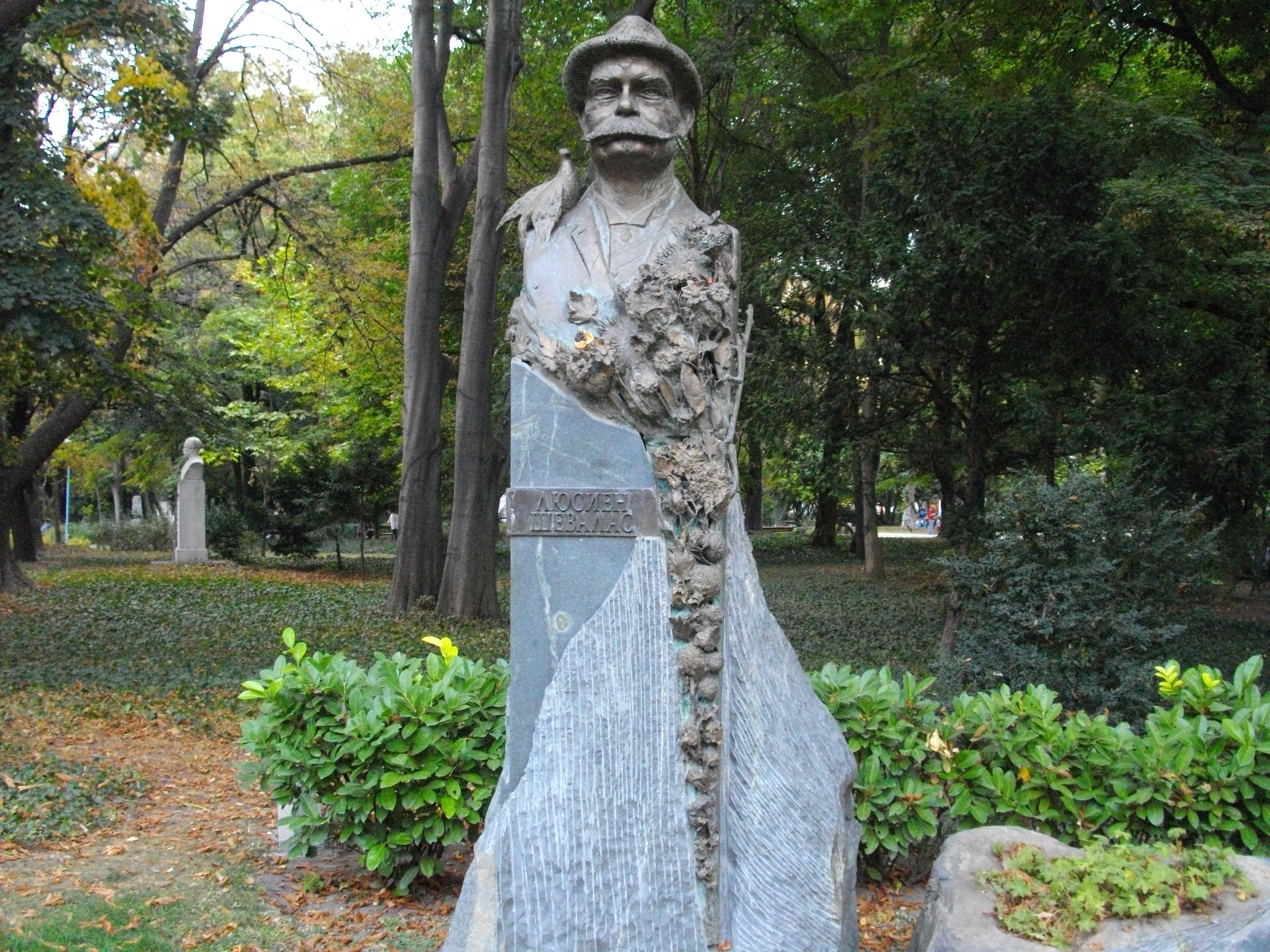 Lucien Chevallaz Monument in Plovdiv, Bulgaria